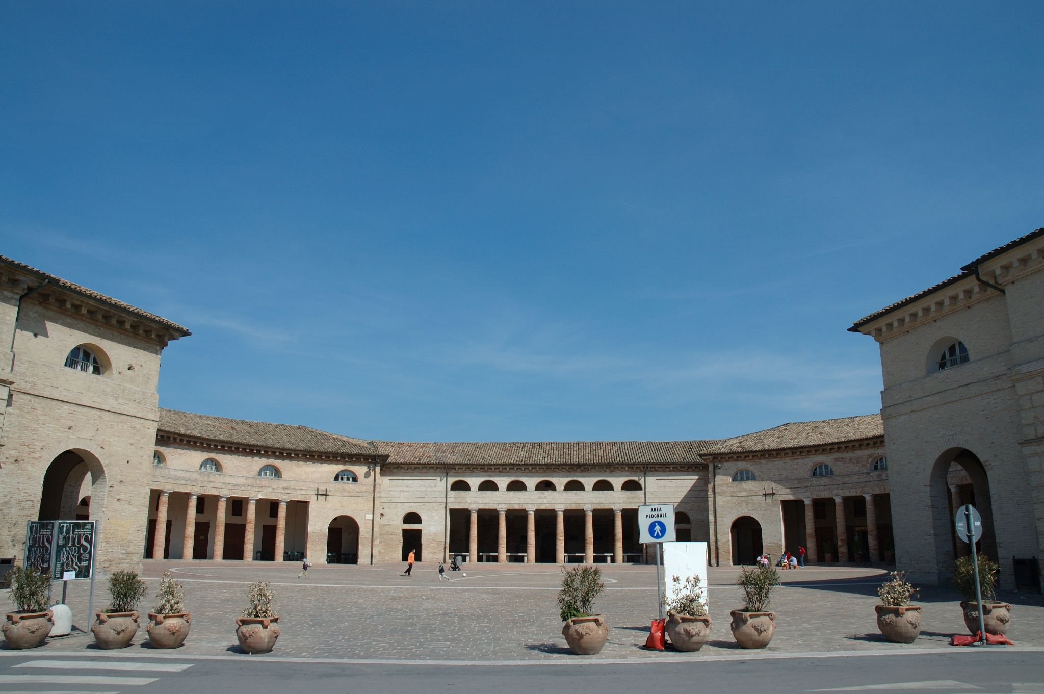 Senigallia, Marche, Italia